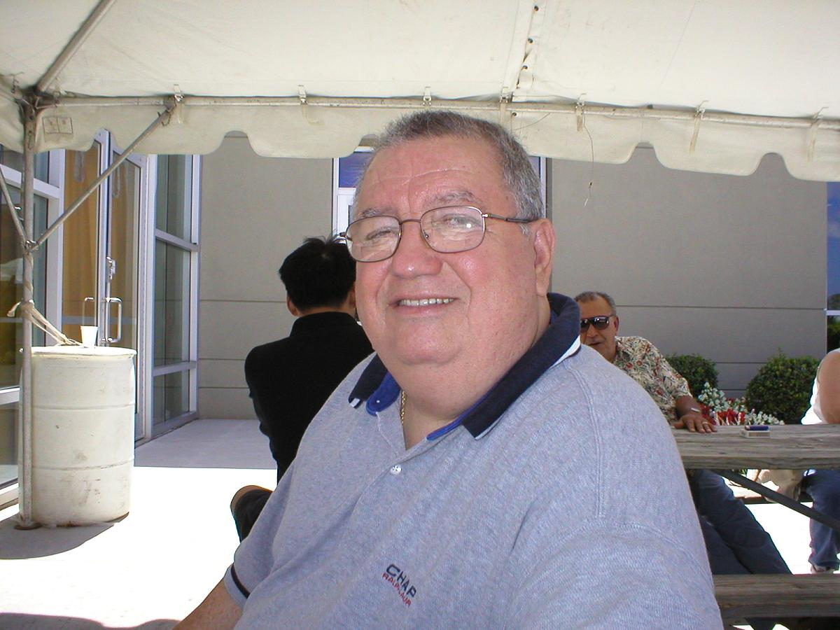 Mike Lebrón Summary This is my personal photo that I took with my camera and may be released to the public domain.